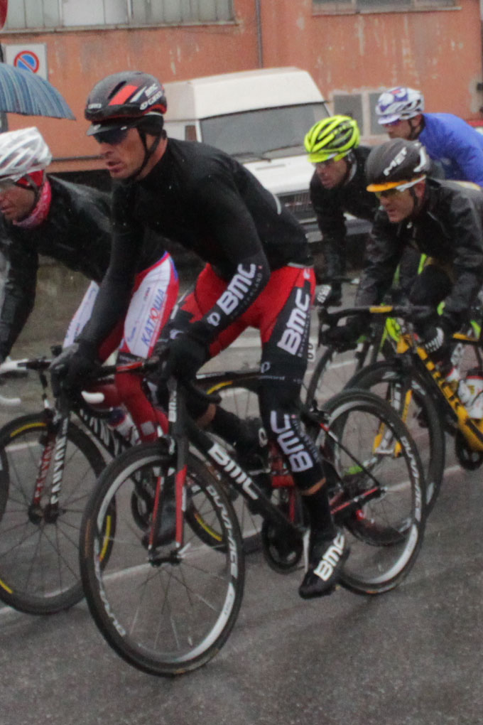 Manuel Quinziato, Milan-Sanremo 2013, Savona